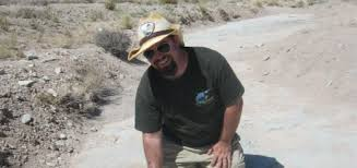 Robert Gay in the field.